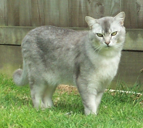 A male Burmilla cat in the United Kingdom. His name is Ollie :-) Actually, his official pedigree name is Fandango Oliver Hardy and he comes from a long line of show-winners, but he isn't a show-cat. His official colour is blue.